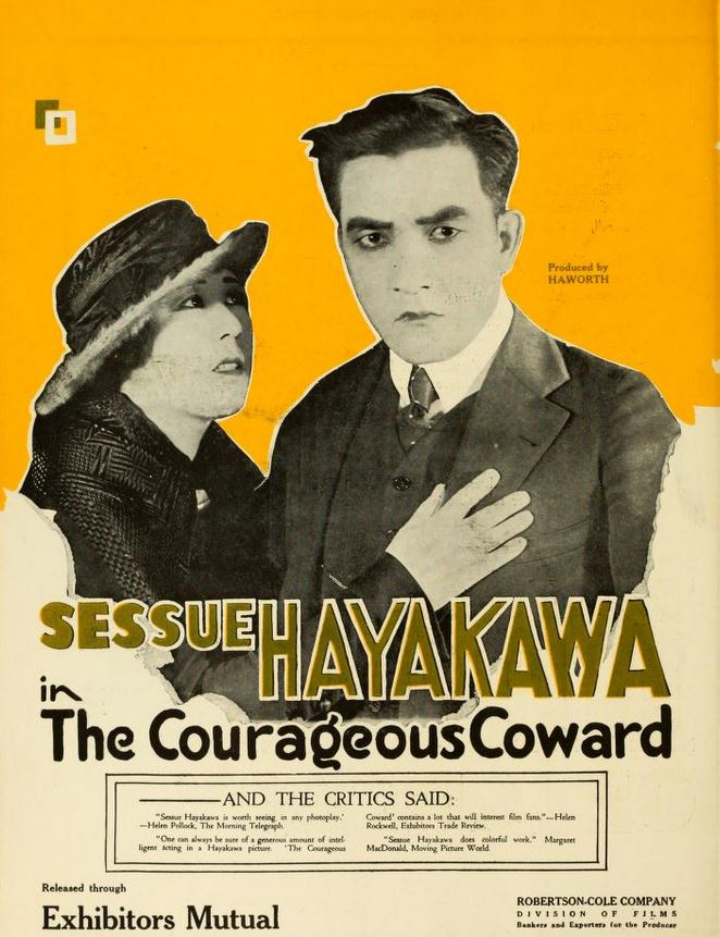 Ad for the American film The Courageous Coward (1919) with Tsuru Aoki and Sessue Hayakawa, in the color insert after page 982 of the May 17, 1919 Moving Picture World.